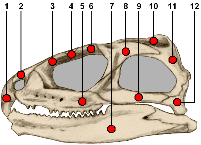 A schematic of the skull of the tuatara (Sphenodon), based on [1], [2]and [3]. Skull of a tuatara, showing the complete temporal arches, and individual bones: 1 = premaxilla 2 = nasal 3 = prefrontal 4 = frontal 5 = maxilla 6 = postfrontal 7 = dentary 8 = postorbital 9 = jugal 10 = parietal 11 = squamosal 12 = quadratojugal and quadrate